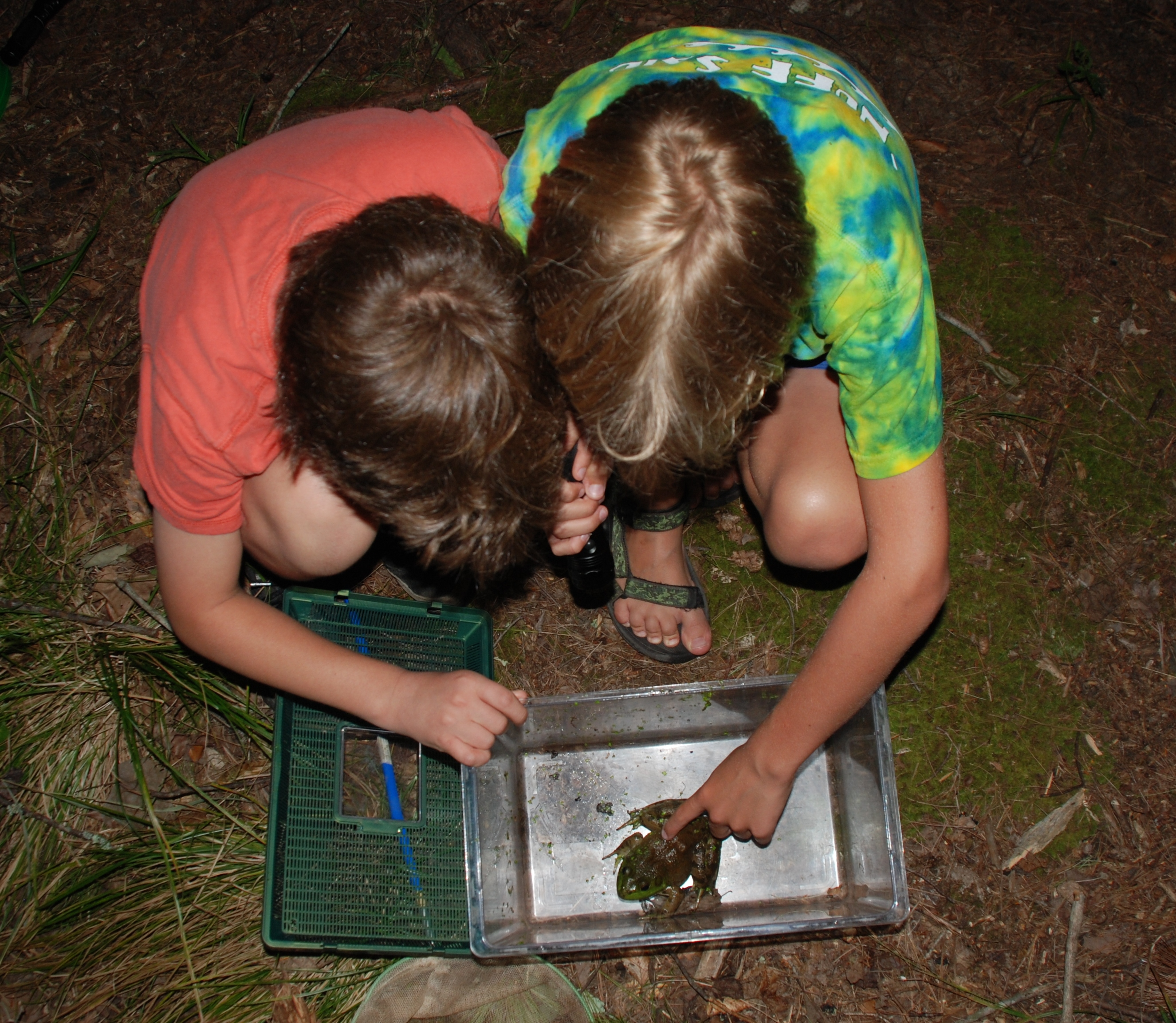 American bullfrog (Rana catesbeiana aka Lithobates catesbeianus) being carefully examined by two nine year old naturalists in Douthat State Park